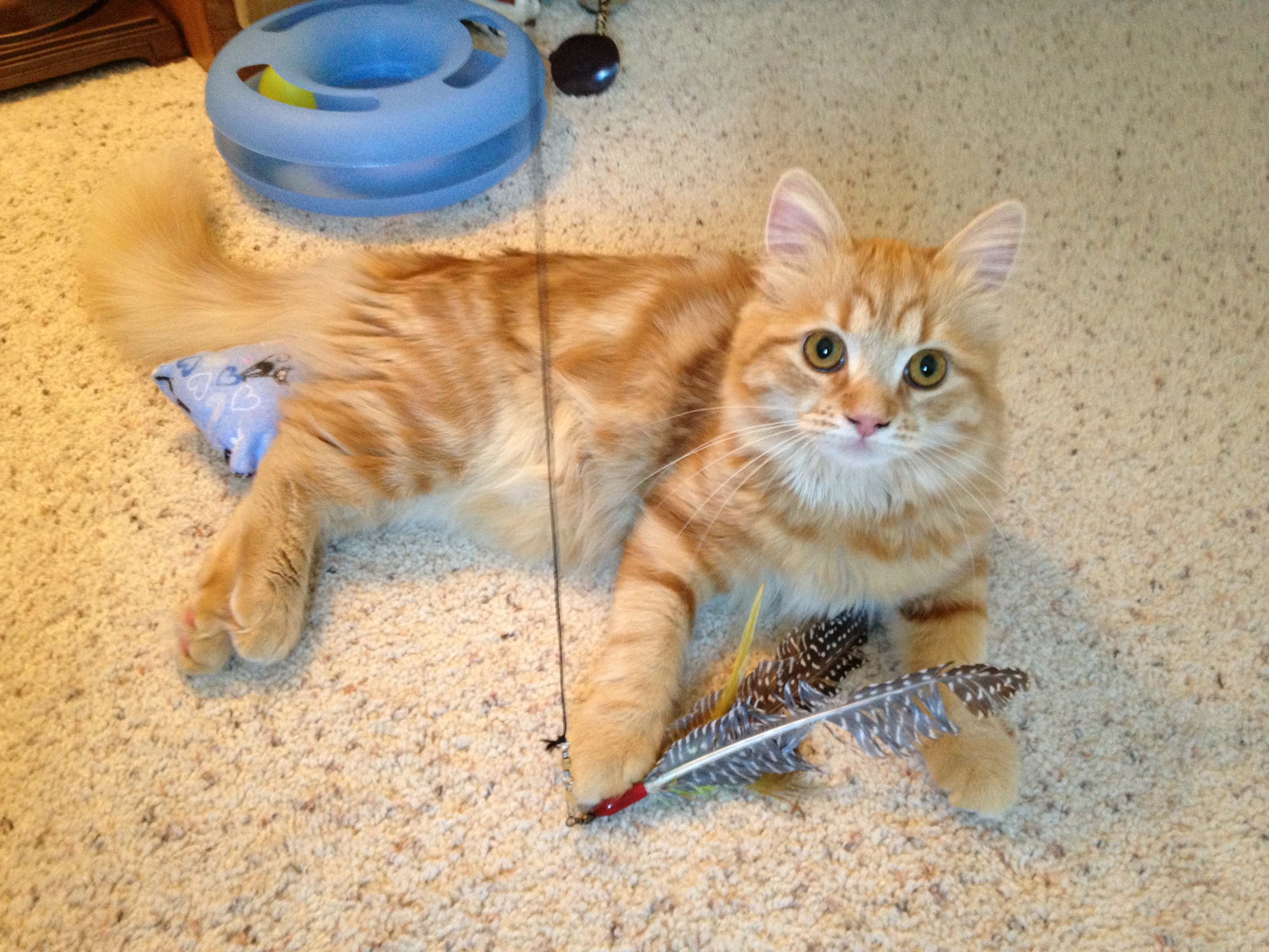 6 month old Siberian male red classic tabby.